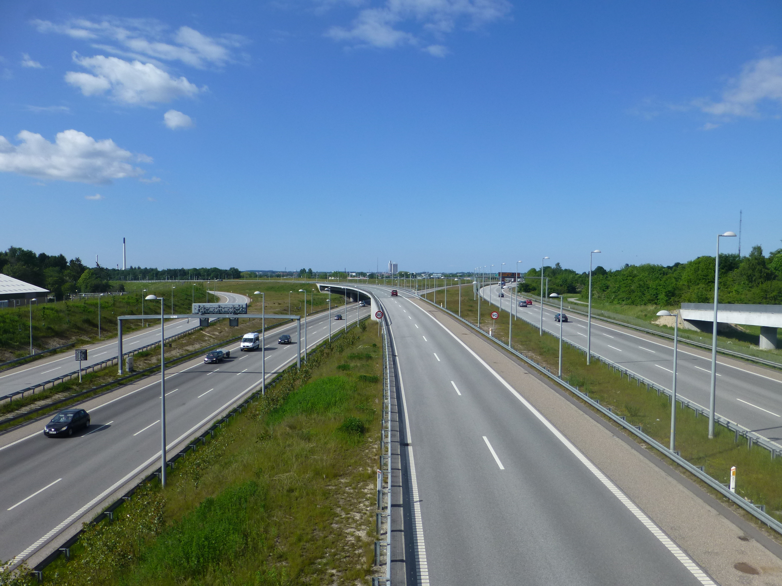 The Danish highway Motorring 3 at the interchange with Frederikssundsmotorvejen.